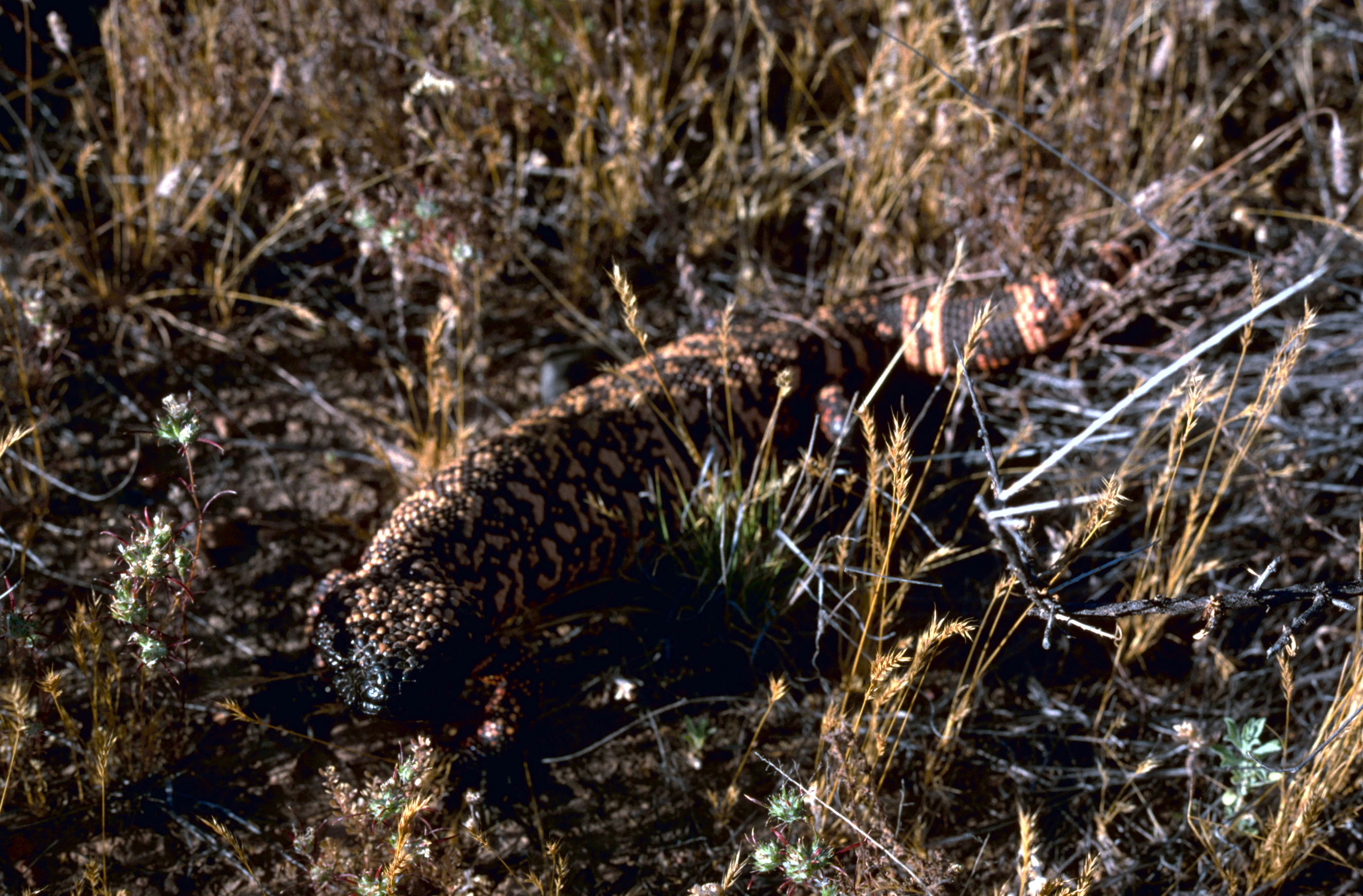 Title:Gila Monster, Buenos Aires National Wildlife Refuge, Arizona Source: WO8201-001